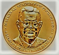 photo shot of the medal